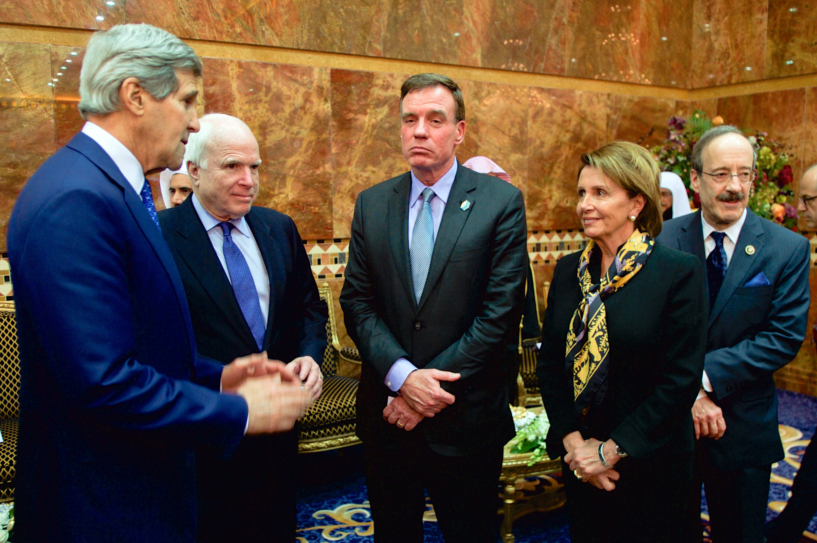 U.S. Secretary of State John Kerry, U.S. Senator John McCain of Arizona, U.S. Senator Mark Warner of Virginia, House Minority Leader Nancy Pelosi of California, and U.S. Representative Eliot Engel of New York chat before greeting the new King Salman of Saudi Arabia at the Erqa Royal Palace in Riyadh, Saudi Arabia, on January 27, 2015, after extending condolences to the late King Abdullah. [State Department photo/ Public Domain]